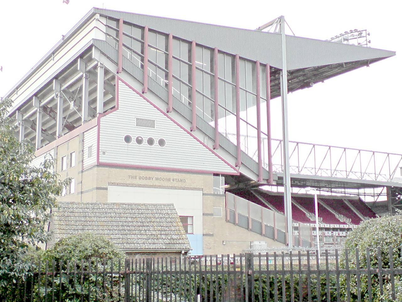 The Booby Moore stand at The Boleyn Ground, from the east side